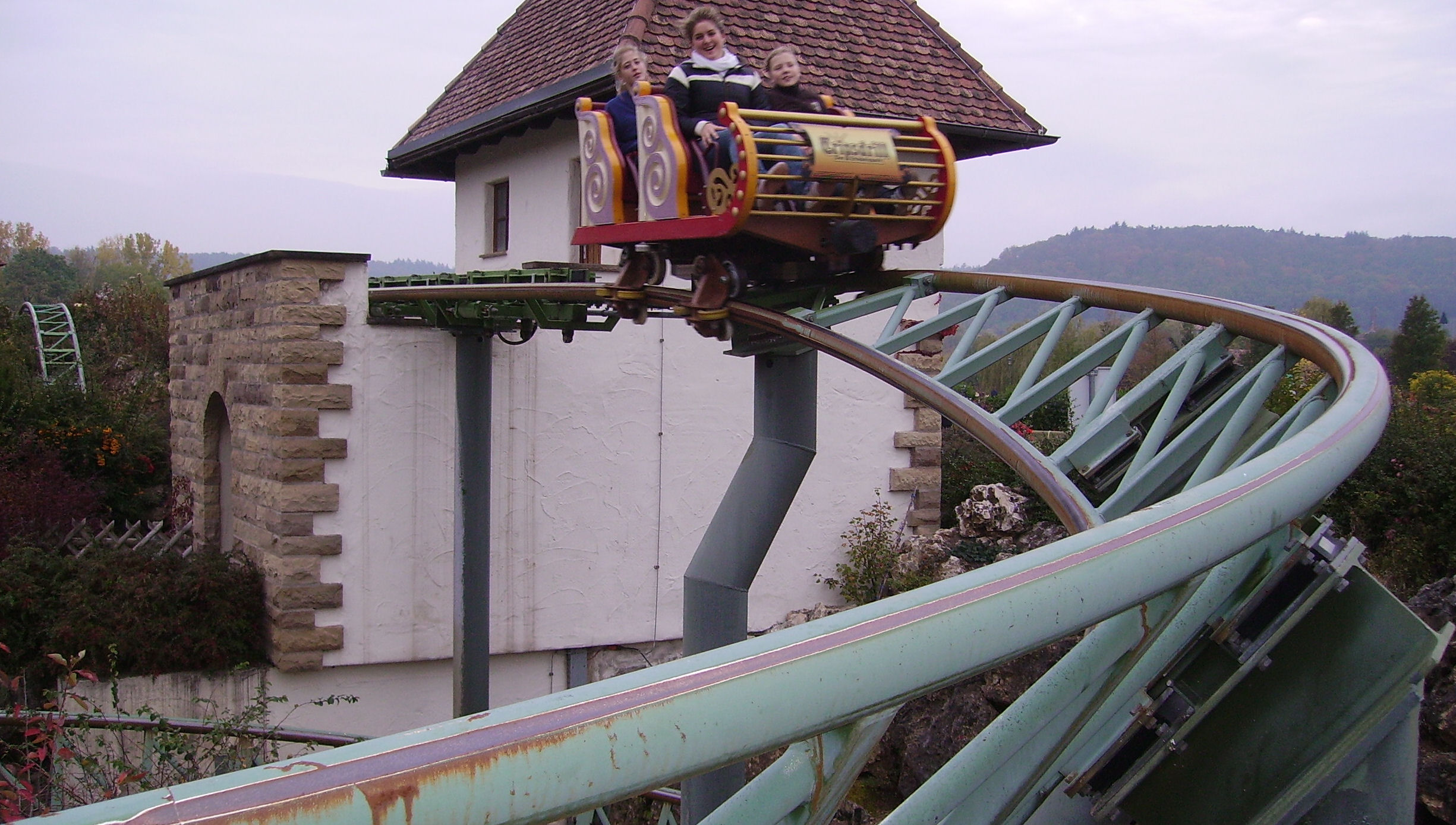 leisure park Tripsdrill near Cleebronn in southern Germany